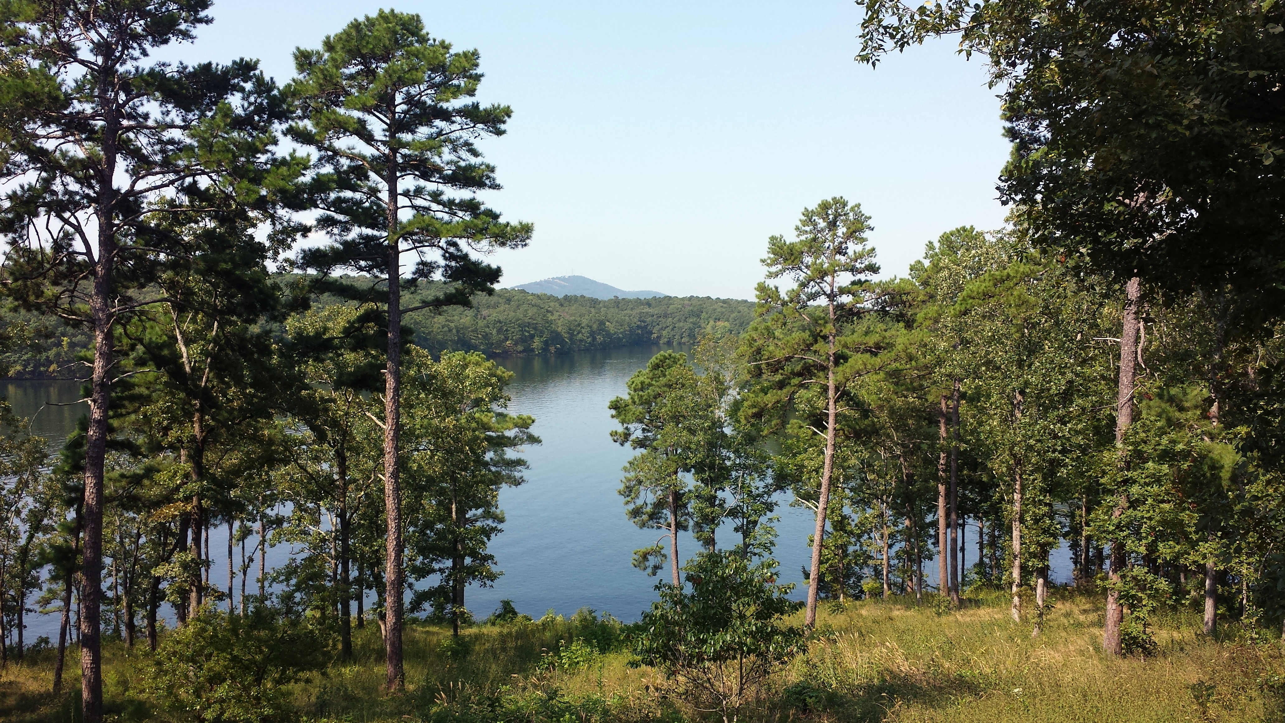 View from Garvan Woodland Gardens viewing platform, Hot Springs, AR